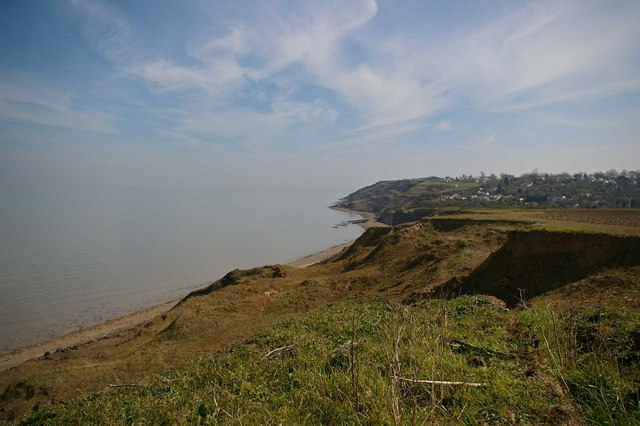 Sheppey Cliff Top